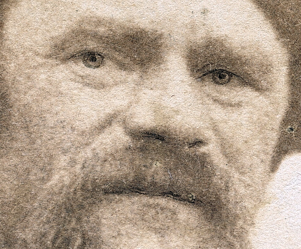 Face of Axt, Cyprian Swiss Federal Archives, E21#1000/131#20507#10*